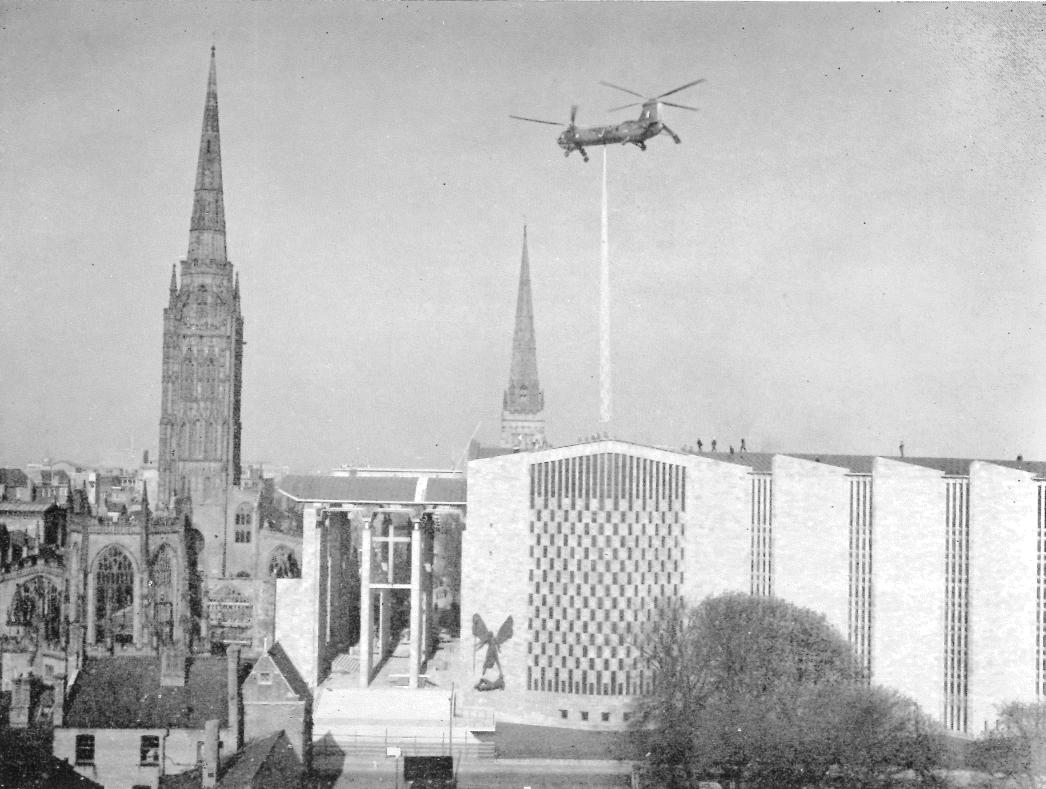 A Royal Air Force helicopter of No. 38 Group placing the flèche on the new Cathedral church of St. Michael, Coventry, April, 1962. (text from original Christmas card).